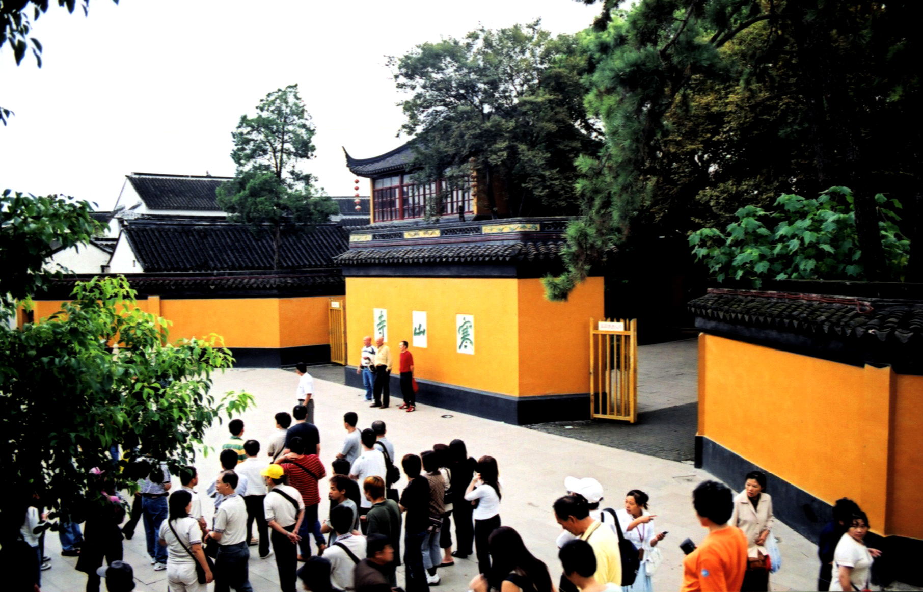 Hanshan Temple, Suzhou 寒山寺)